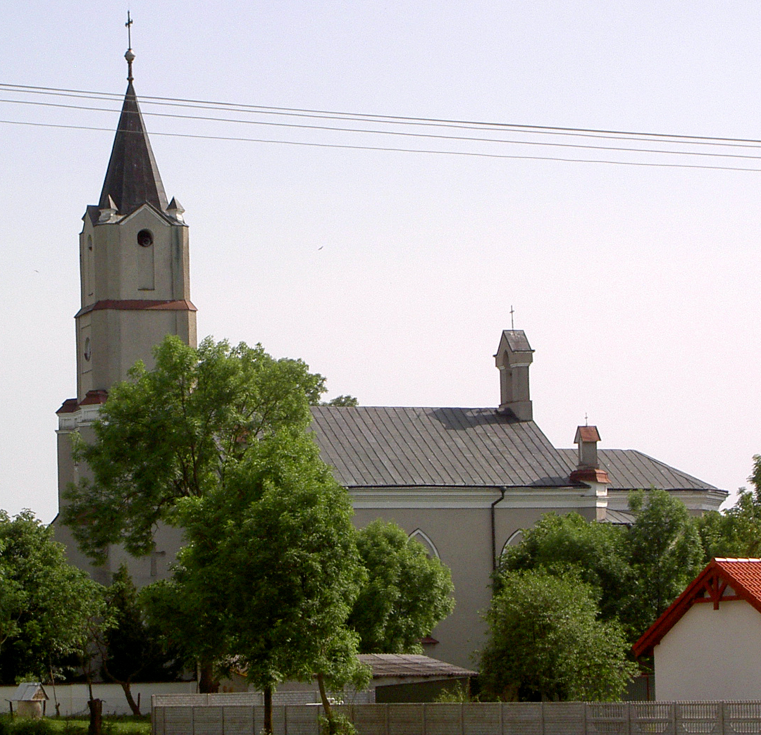 Church of the Nativity of the Virgin Mary in Kryłów, Poland